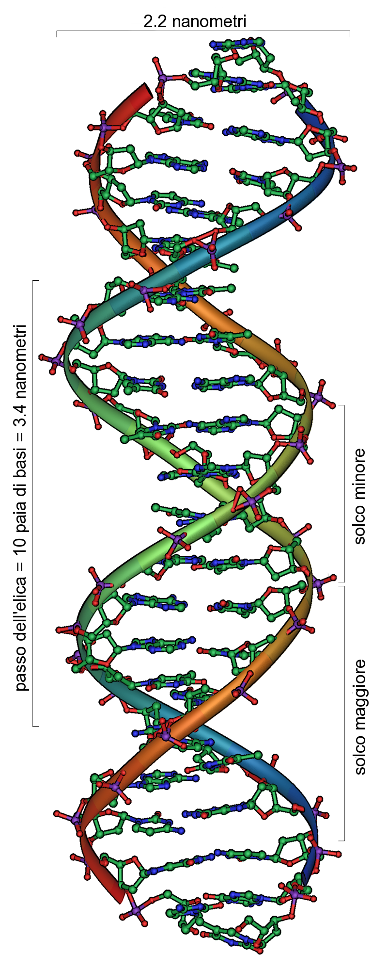 An overview of the structure of DNA. Created by Michael Ströck (mstroeck) on February 8, 2006. Released under the GFDL. Translated in italian by Gia.cossa on May 19, 2007. FPC nomination The end result of the nomination process for this image was that it was not promoted. There were some questions about the accuracy/design philosophy of the diagram. A modified version that addresses at least some of the concerns expressed in the nomination discussion would likely be promoted, judging by the comments. The utility of such a diagram is obvious. -- moondigger 16:36, 18 June 2006 (UTC)